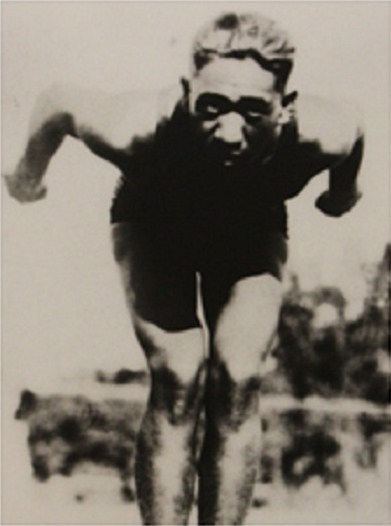 Pua Kele Kealoha (November 14, 1902 – August 29, 1989) was an American swimmer who competed in the 1920 Summer Olympics.